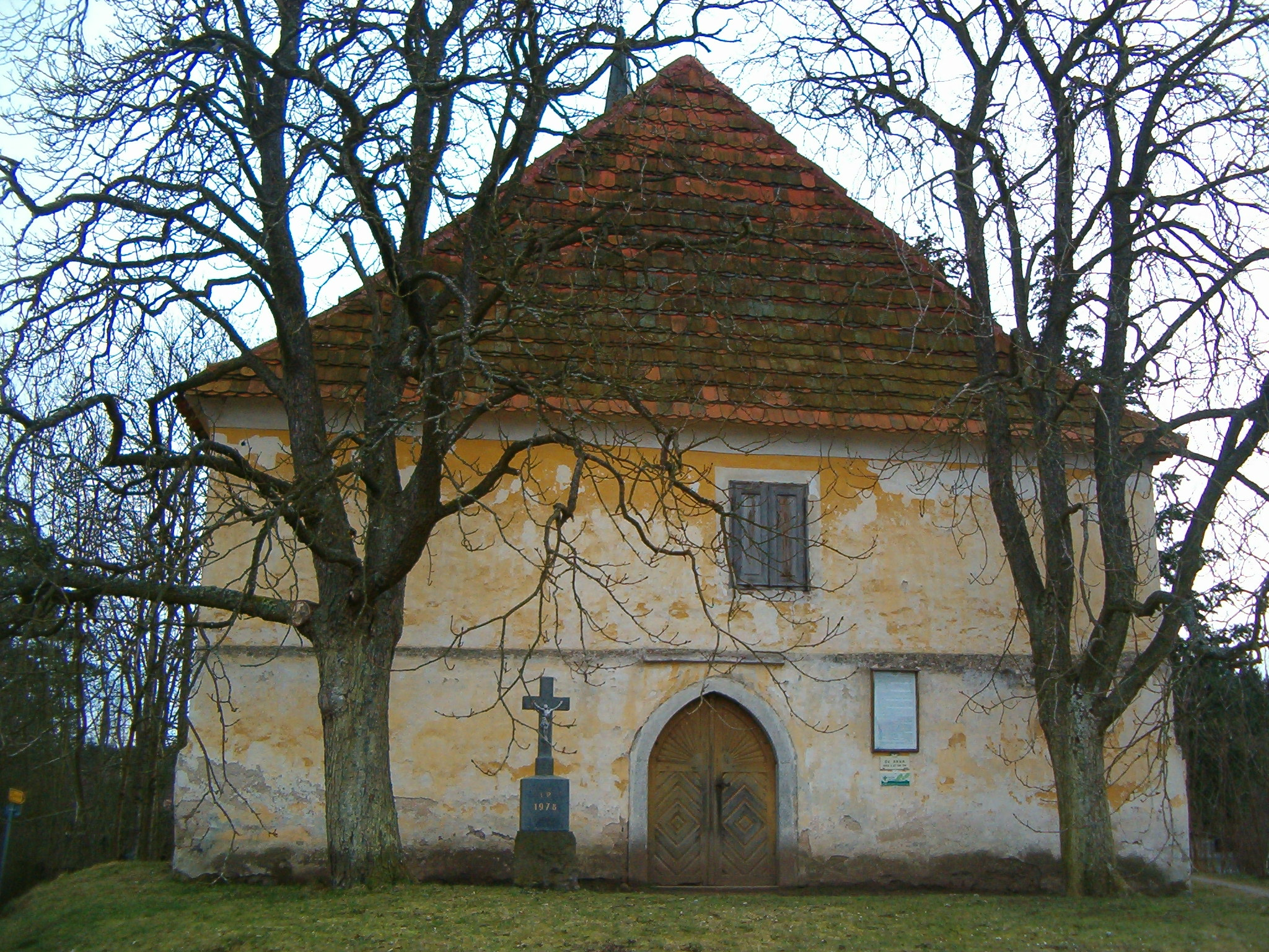 Chapel Svaté Anny, which was buildet between 1545-1548, Oslov, Písek district